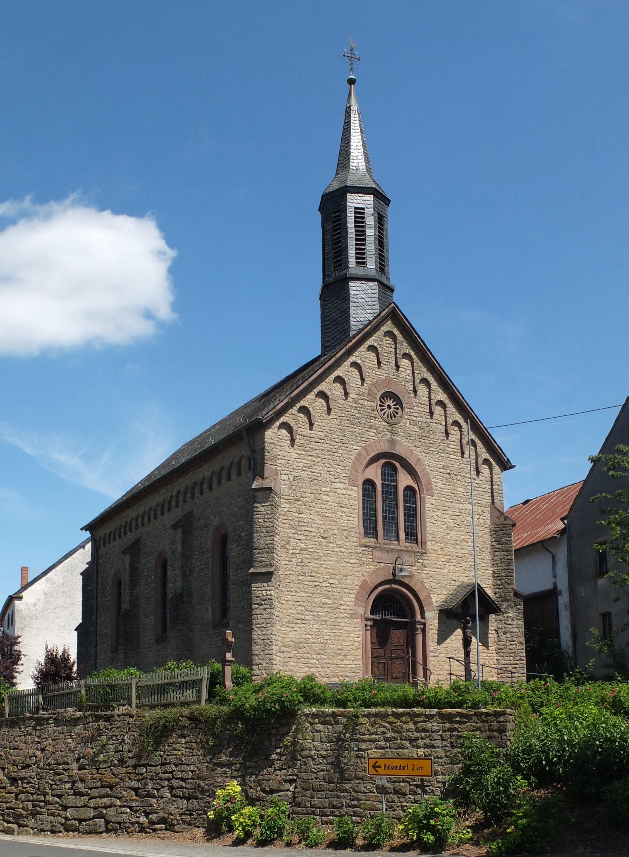 "St. Hubertus Church" (1875) in Nattenheim, Germany (view south). This is a photograph of an architectural monument.It is on the list of cultural monuments of Nattenheim